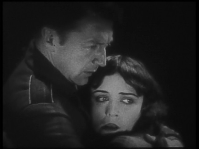 Pola Negri in Barbed Wire, the 1927 film directed by Rowland V. Lee.